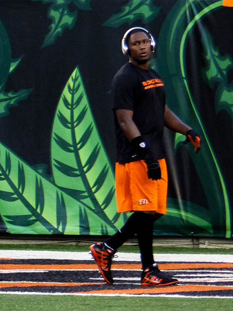 Warming up before Monday Night Football game vs the Pittsburgh Steelers, September 17, 2013